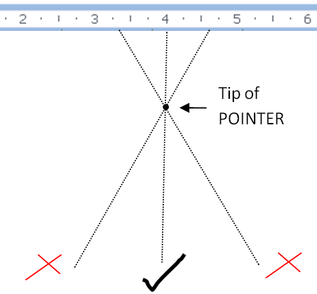 drawing showing parallax error when reading instrument